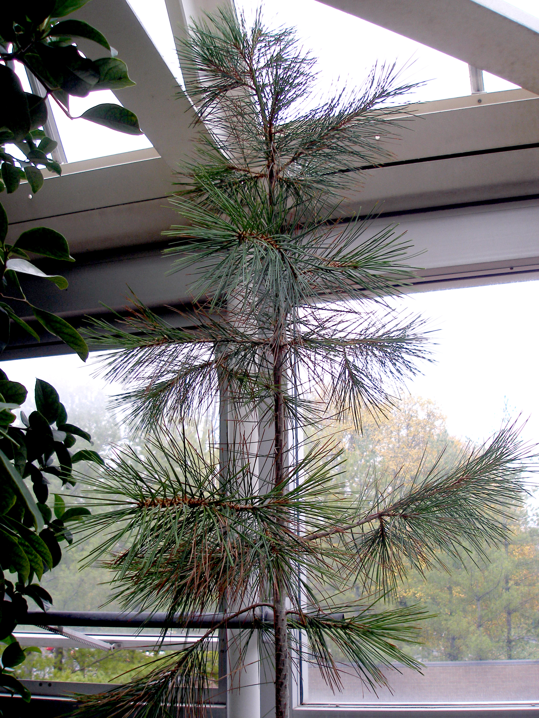 Pinus gerardiana at the Franklin Park Conservatory in Columbus, Ohio, USA